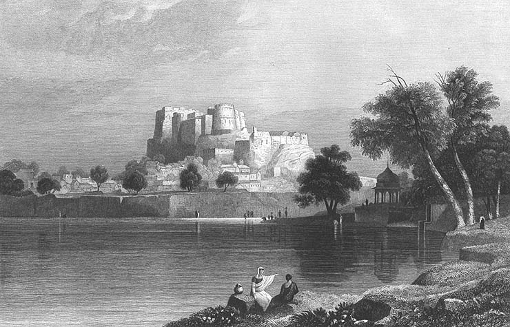 View of Amber Fort, across Maotha lake, AmberJaipur, c1858.